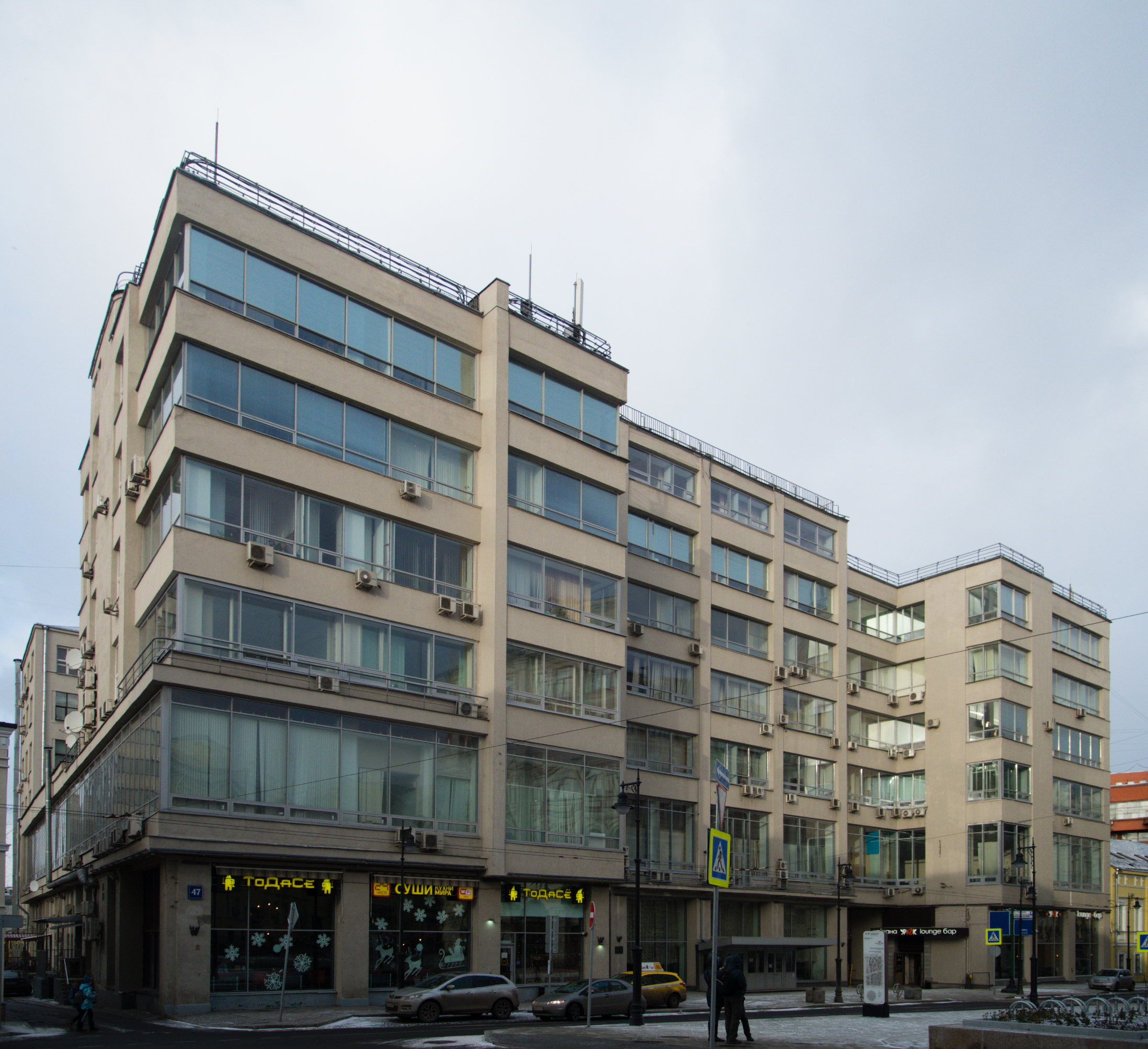 Gostorg building Dec 2015. 1927 Gostorg Building, Moscow, Myasnitskaya Street, 47